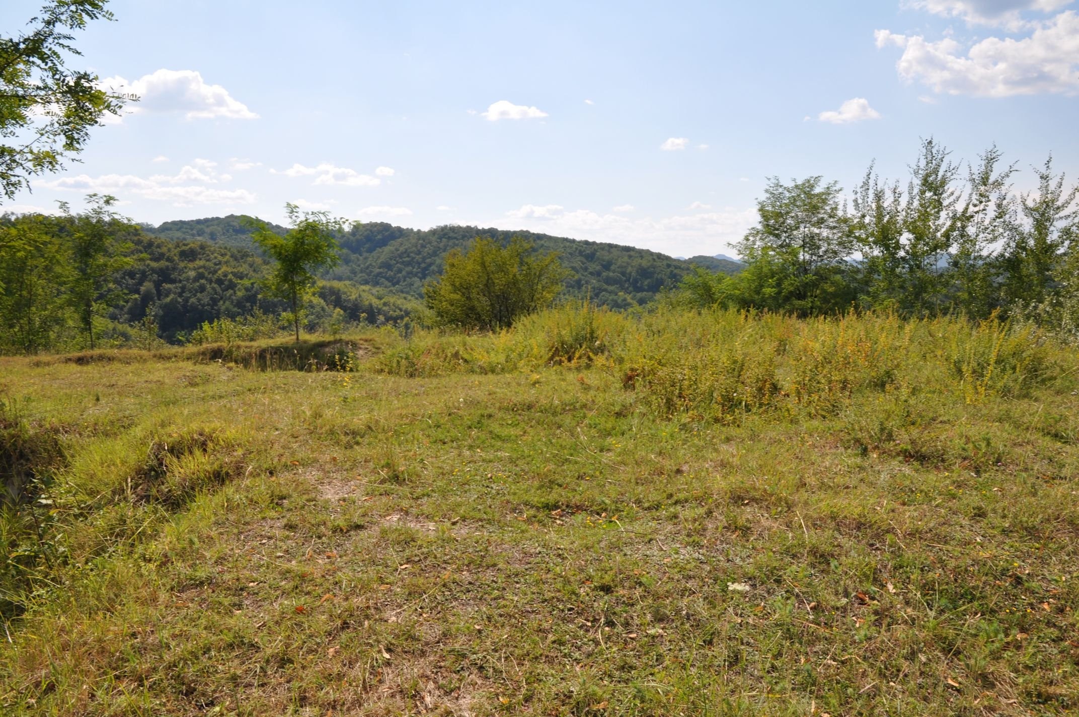 Dacian Fortress Buridava, Ocnele Mari, Romania